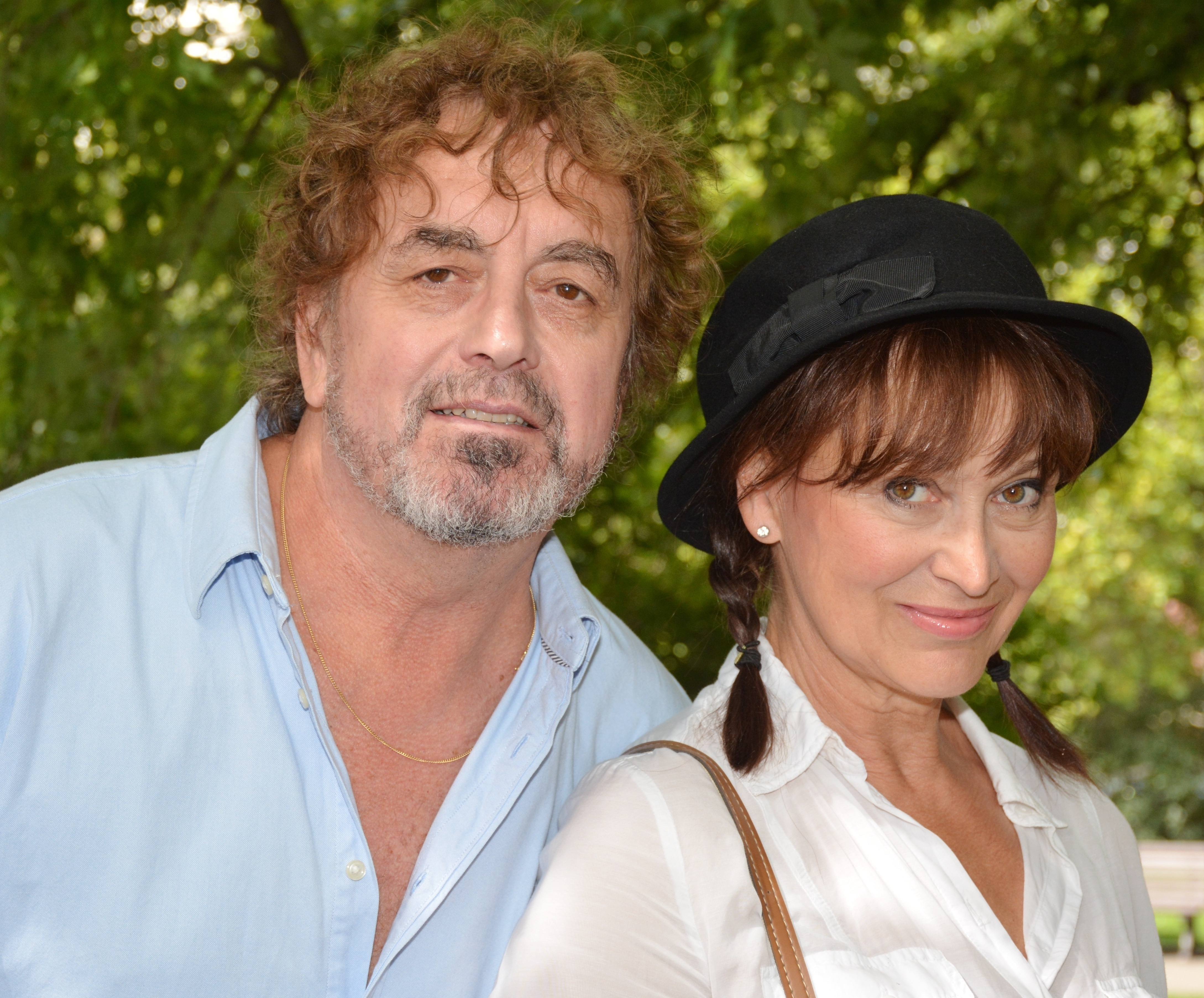 Jiří Pracný, Czech musician and Petra Černocká, Czech vocalist